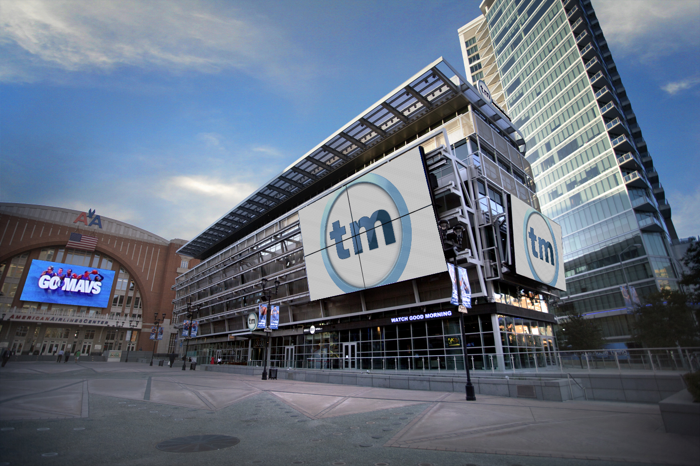 Exterior of TM Advertising building